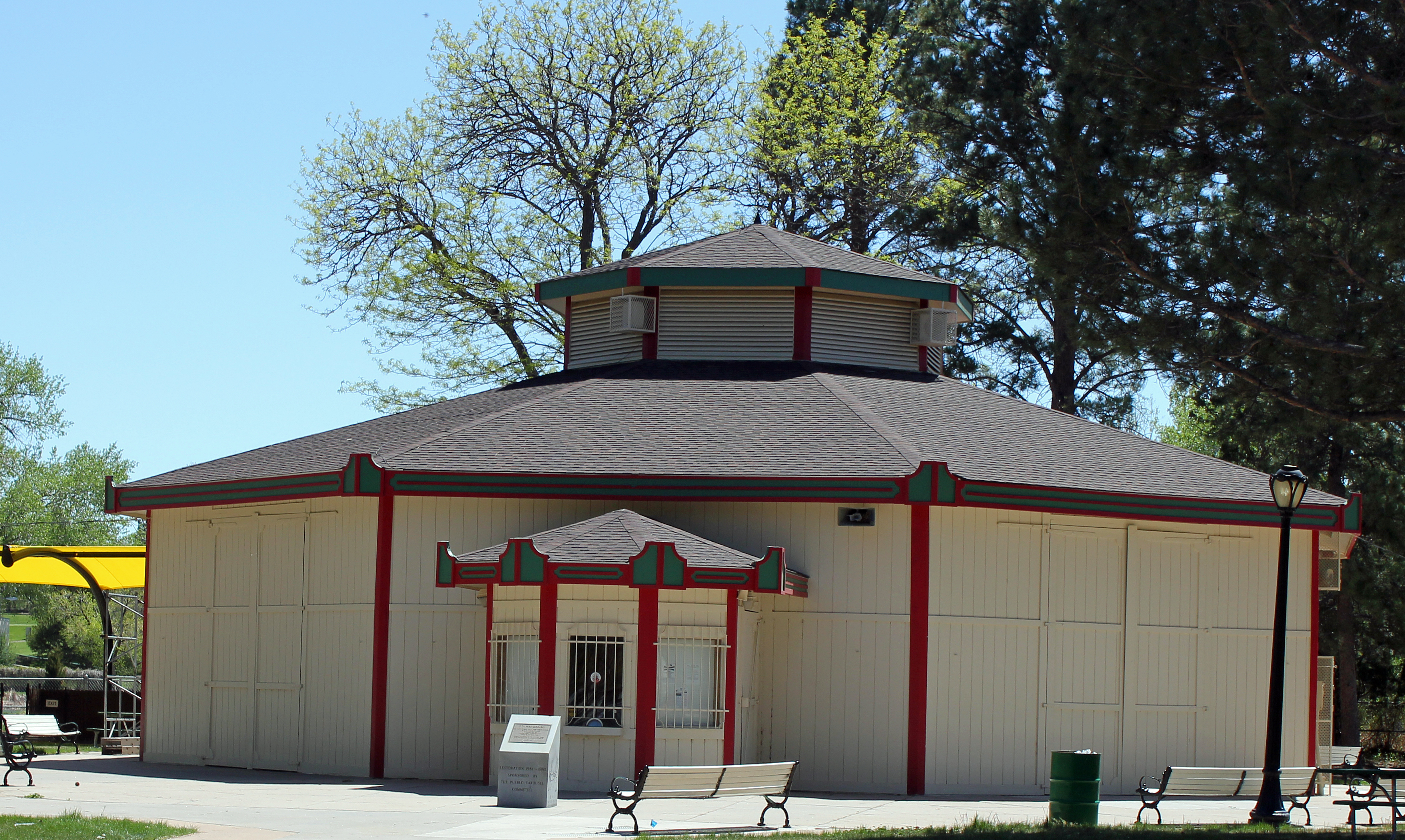 The City Park Carousel in Pueblo, Colorado. The property is listed on the National Register of Historic Places.